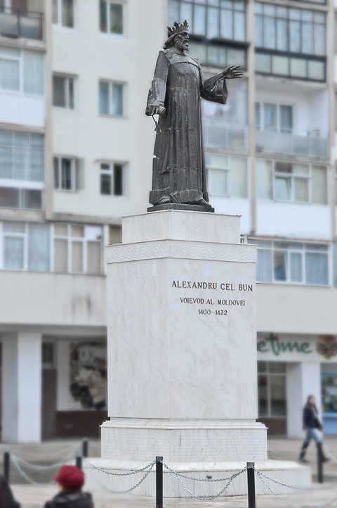 Alexandru cel Bun Statue, Voievozilor Square, Iași